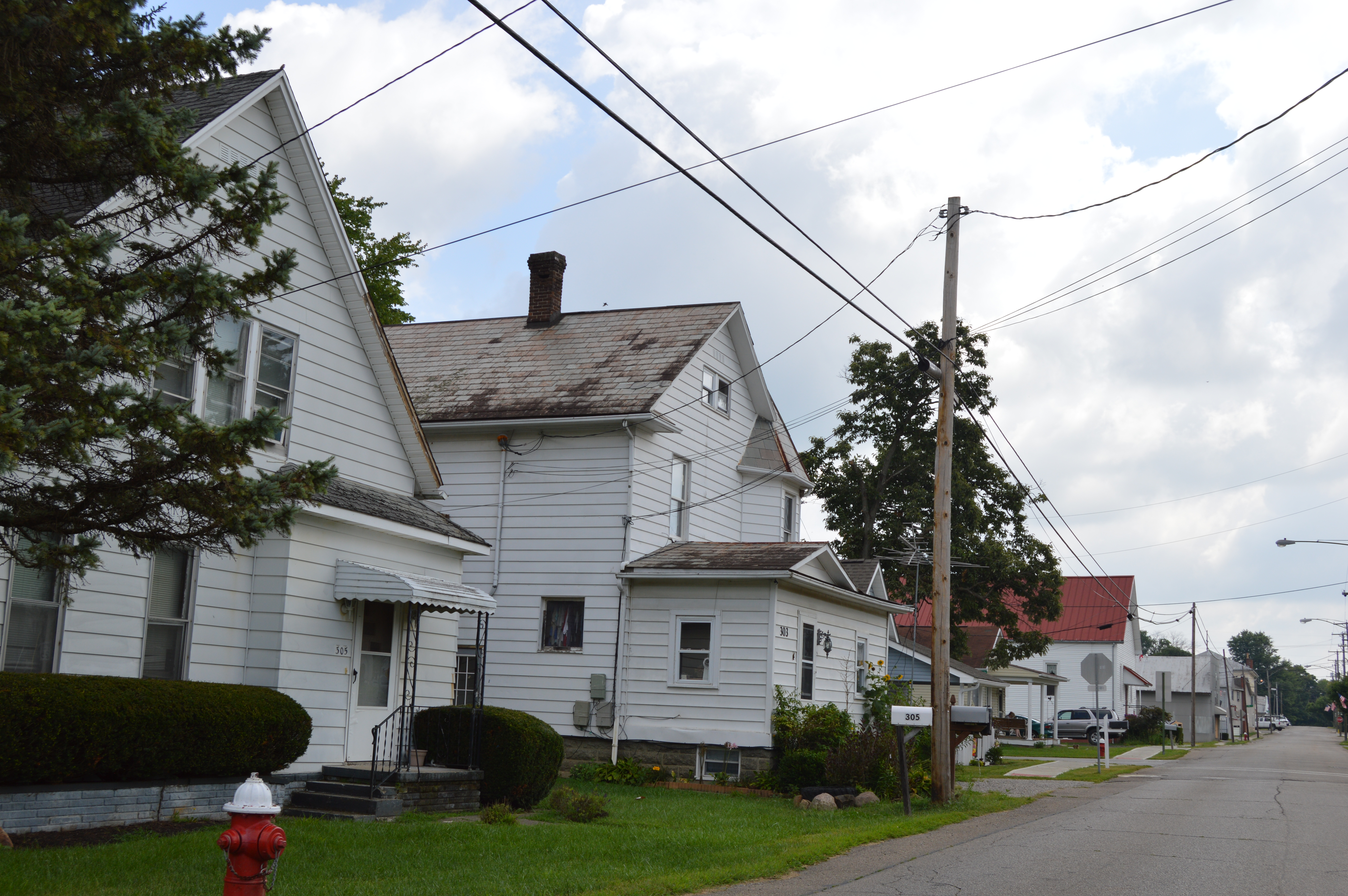 Houses on the northern side of Columbus Street at the Walnut Street intersection in Pleasantville, Ohio, United States.